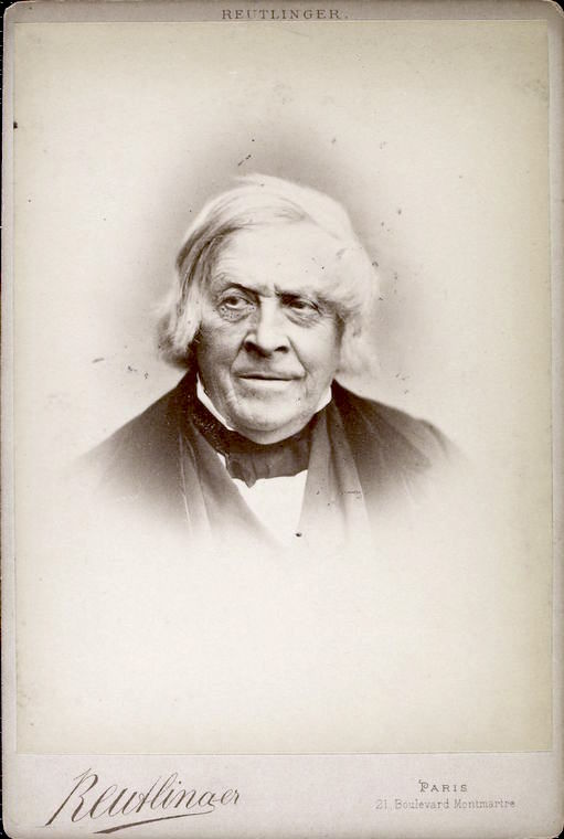 French historian Jules Michelet late in his career